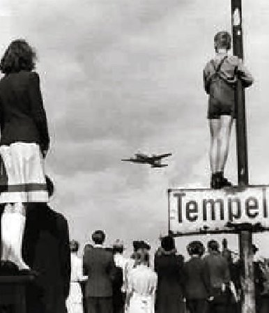 Berlin Civilians watching an airlift plane land at Templehof Airport, 1948